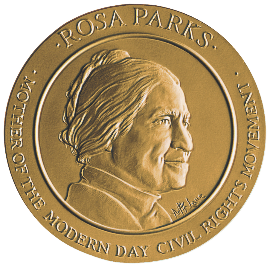 Heads side of the Rosa Parks Congressional Gold Medal presented to Rosa Parks on 28 November 1999. Designed by Artis Lane.